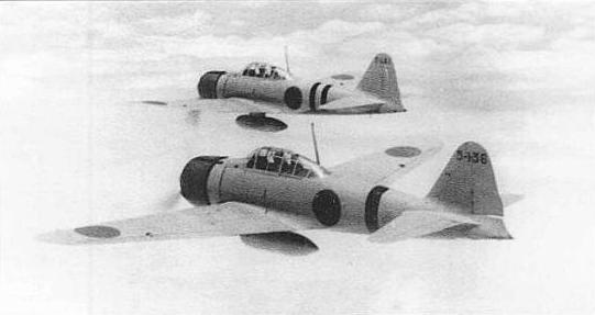 A6M2a model11 on China.